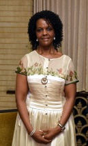 Grace Mugabe, Director of the Women's Affairs Division, Zimbabwe African National Union - Patriotic Front, met Akie Abe, spouse of Shinzō, in Japan on March 28, 2016.